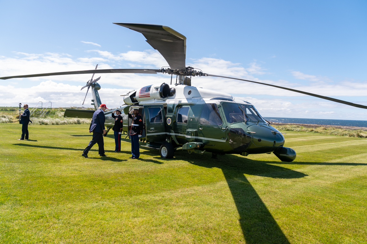 President Donald J. Trump waves farewell from Doonbeg, Ireland, as he prepares to board Marine One Friday, June 7, 2019, for the First Couple’s flight to Shannon Airport in Shannon, Ireland, and on to Air Force One for his flight home to Washington, D.C. (Official White House Photo by Shealah Craighead)